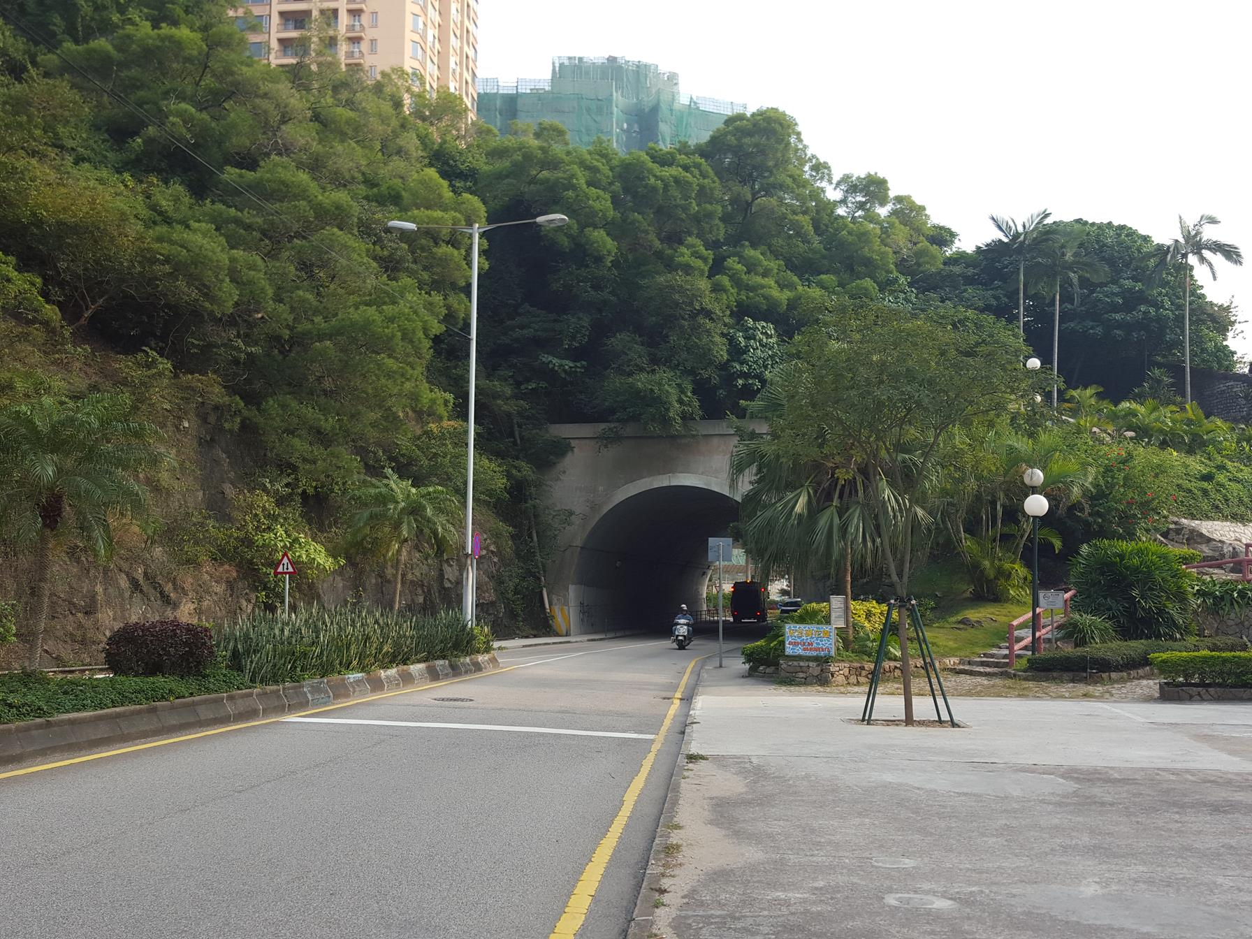 Tunel do Taipa entrance